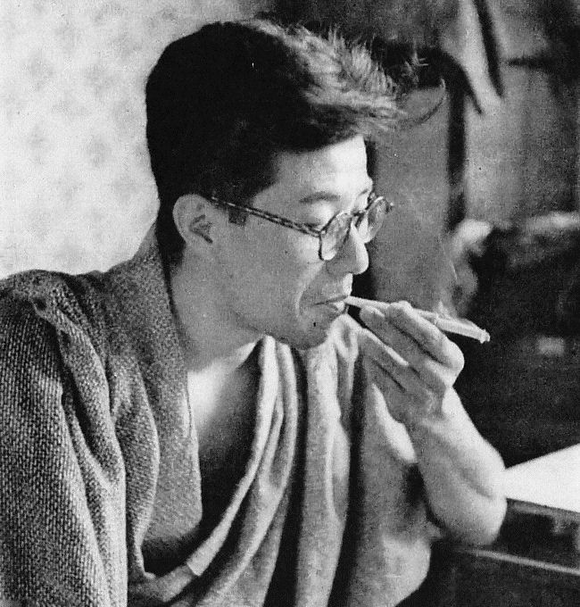 Toshimitsu Ishikawa